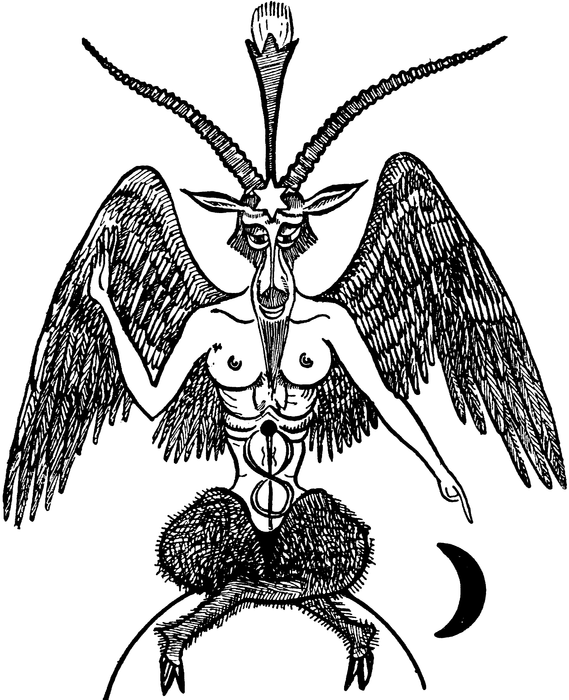 Bouc de la goétie Basphomet, the goat incarnation of the Devil. After Éliphas Lévi, from a pen drawing in a French occult manuscript La Migie Noire (Black Magic), nineteenth century.